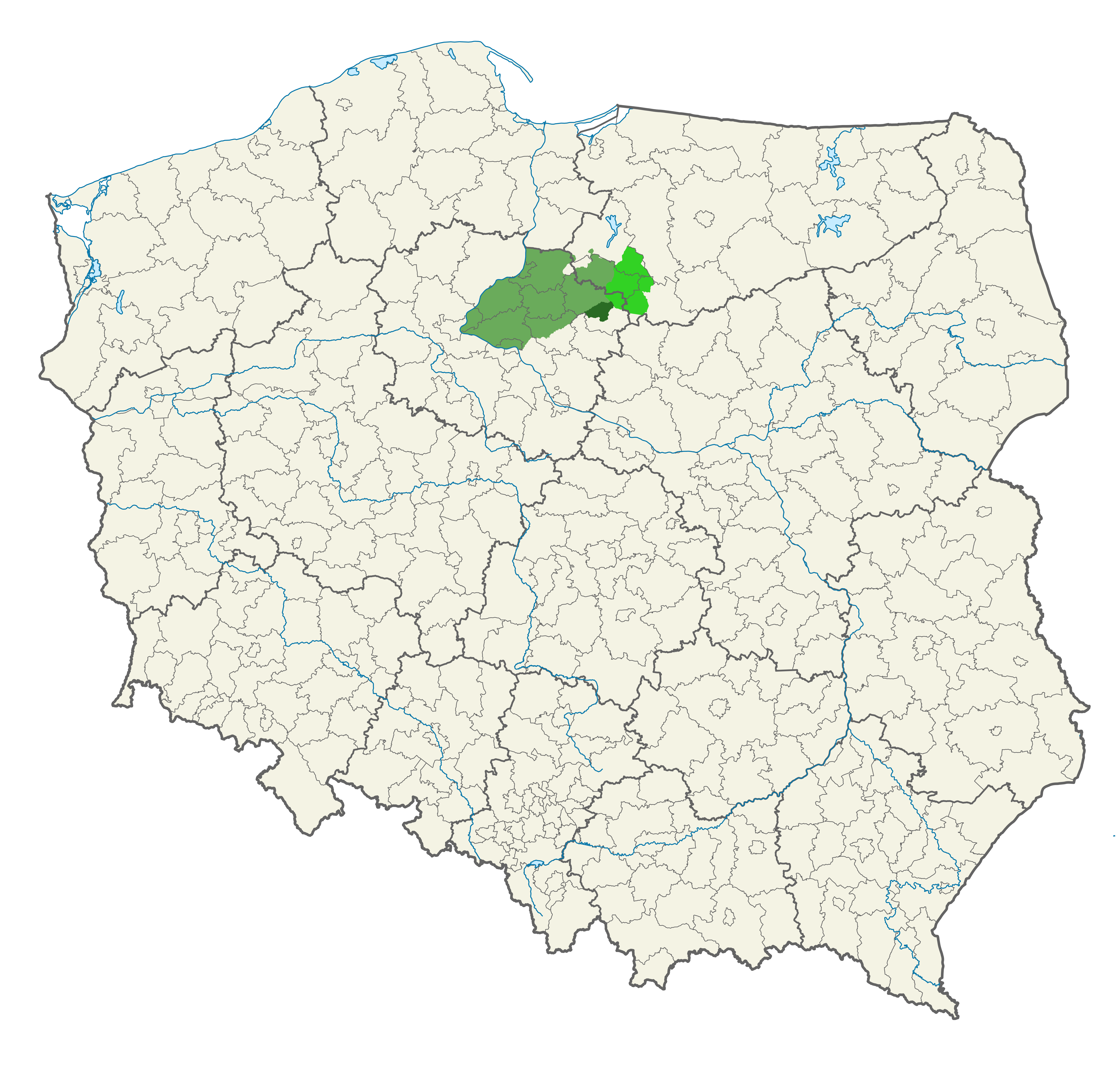 Location of ziemia chelminska and michalowska region in Poland.